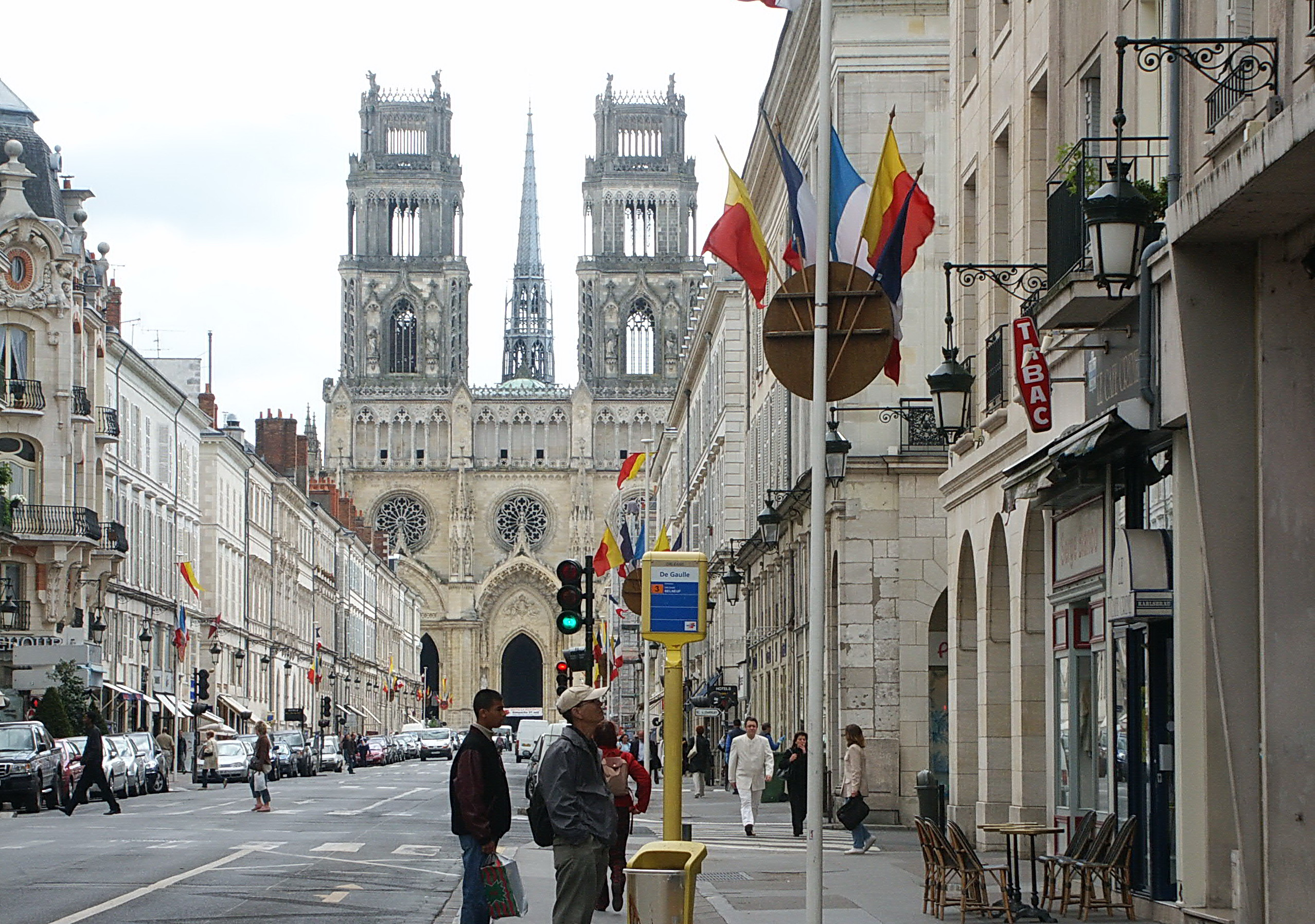 Cathedrale Sainte Croix 聖十架大教堂